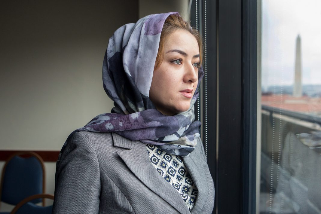 Mihrigul Tursun, a young Uighur mother says she was tortured and subjected to other brutal conditions in one of the “re-education” camps in China’s Xinjiang.